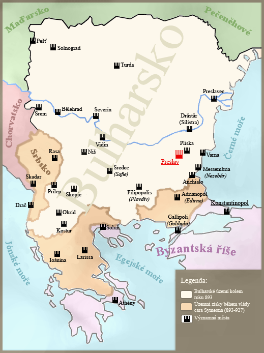 A map of the First Bulgarian Empire's greatest territorial extent during the reign of Tsar Simeon I (893-927).